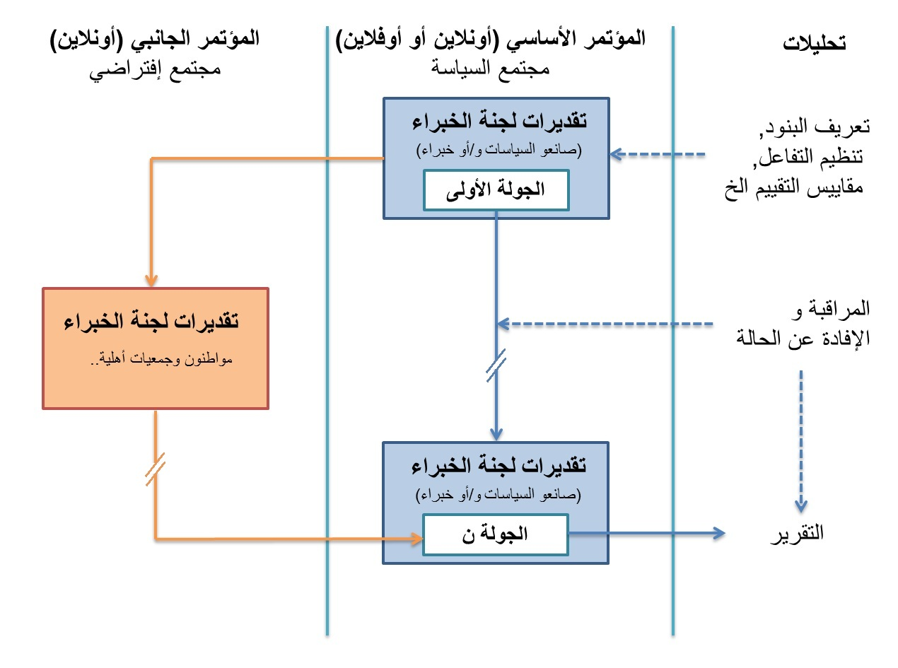 A flowchart for web-based communication structure (Hyperdelphi).